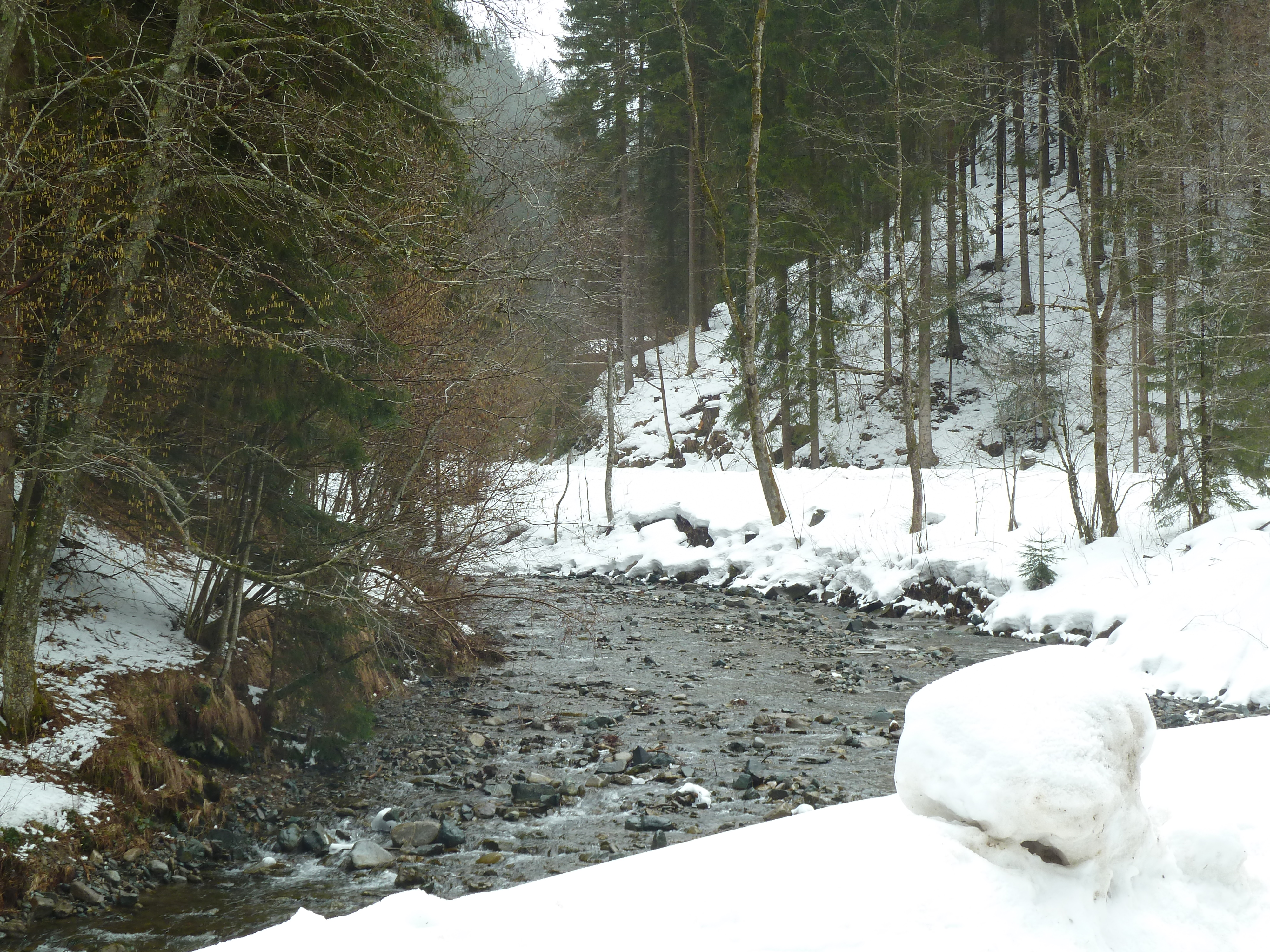 Mislinja River in the upper course